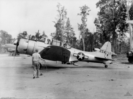 A United States Army Air Force Douglas A-24B-15-DT Banshee (s/n 42-54736) of Headquarters Flight Section, 13th Air Force, on Morotai Island, Halmahera Islands, Netherlands East Indies, on 1 January 1945.